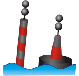 Isolated danger mark in IALA system.